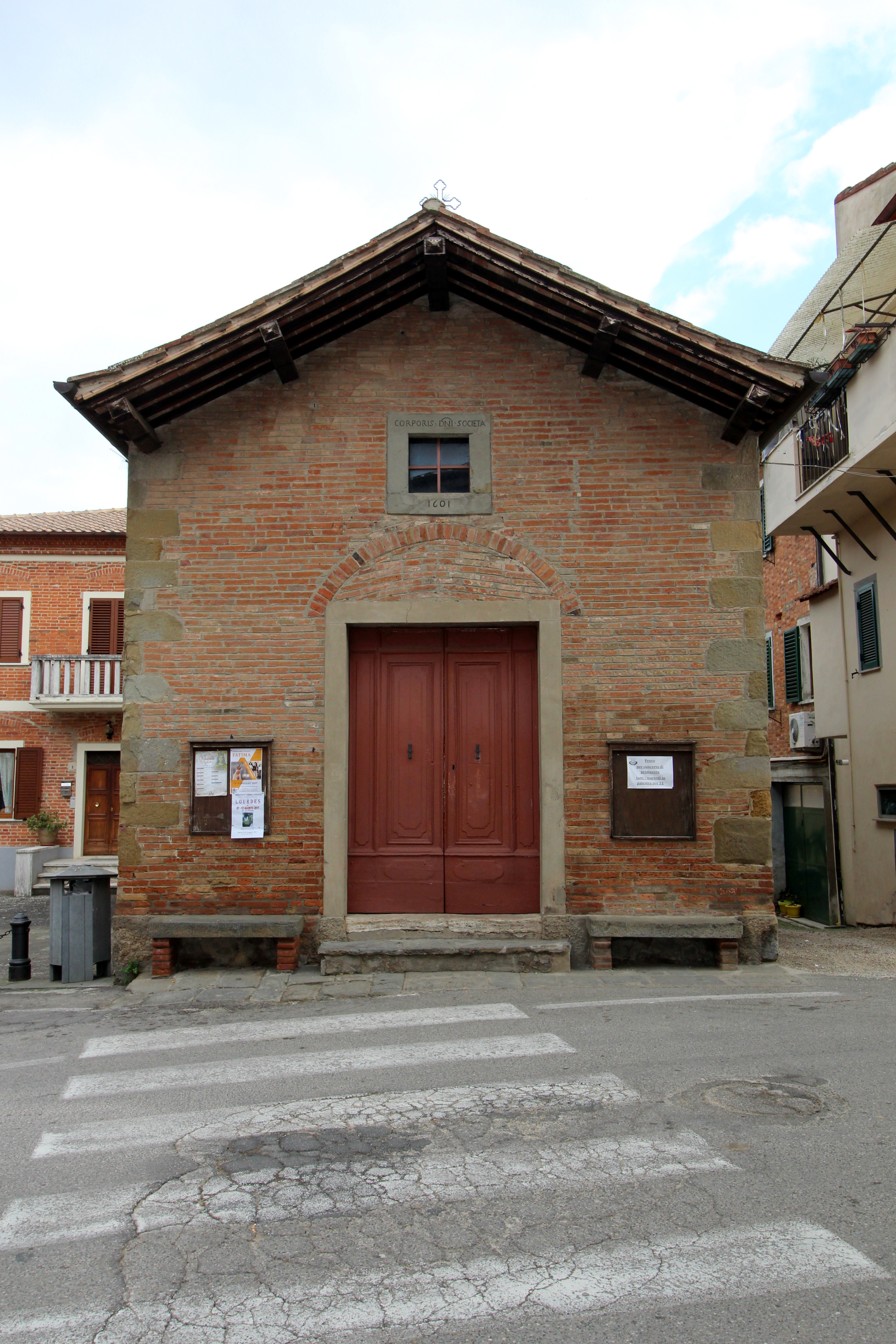 Church/Oratory Oratorio del Santissimo Crocifisso, Pozzo della Chiana, hamlet of Foiano della Chiana, Val di Chiana, Province of Arezzo, Tuscany, Italy